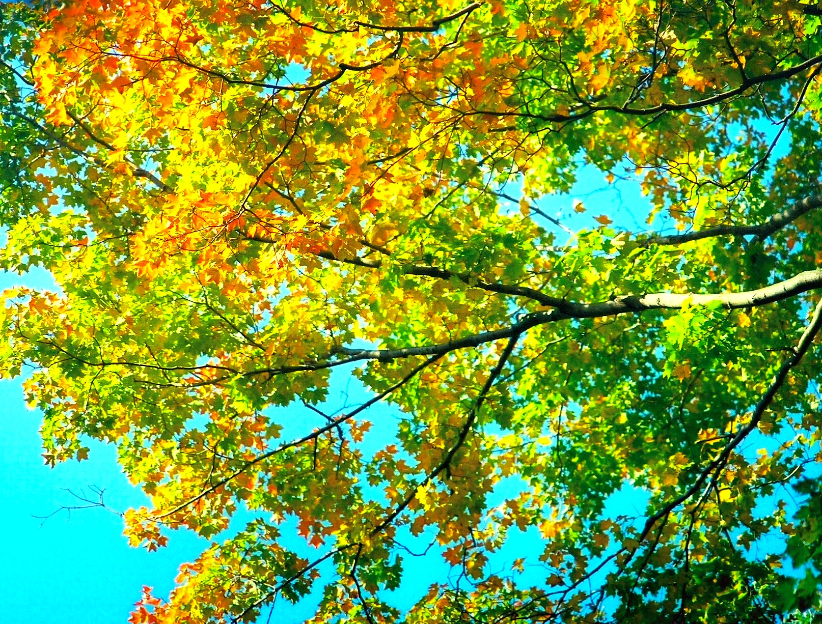 Maple leaves in a temperate deciduous forest turning color during autumn